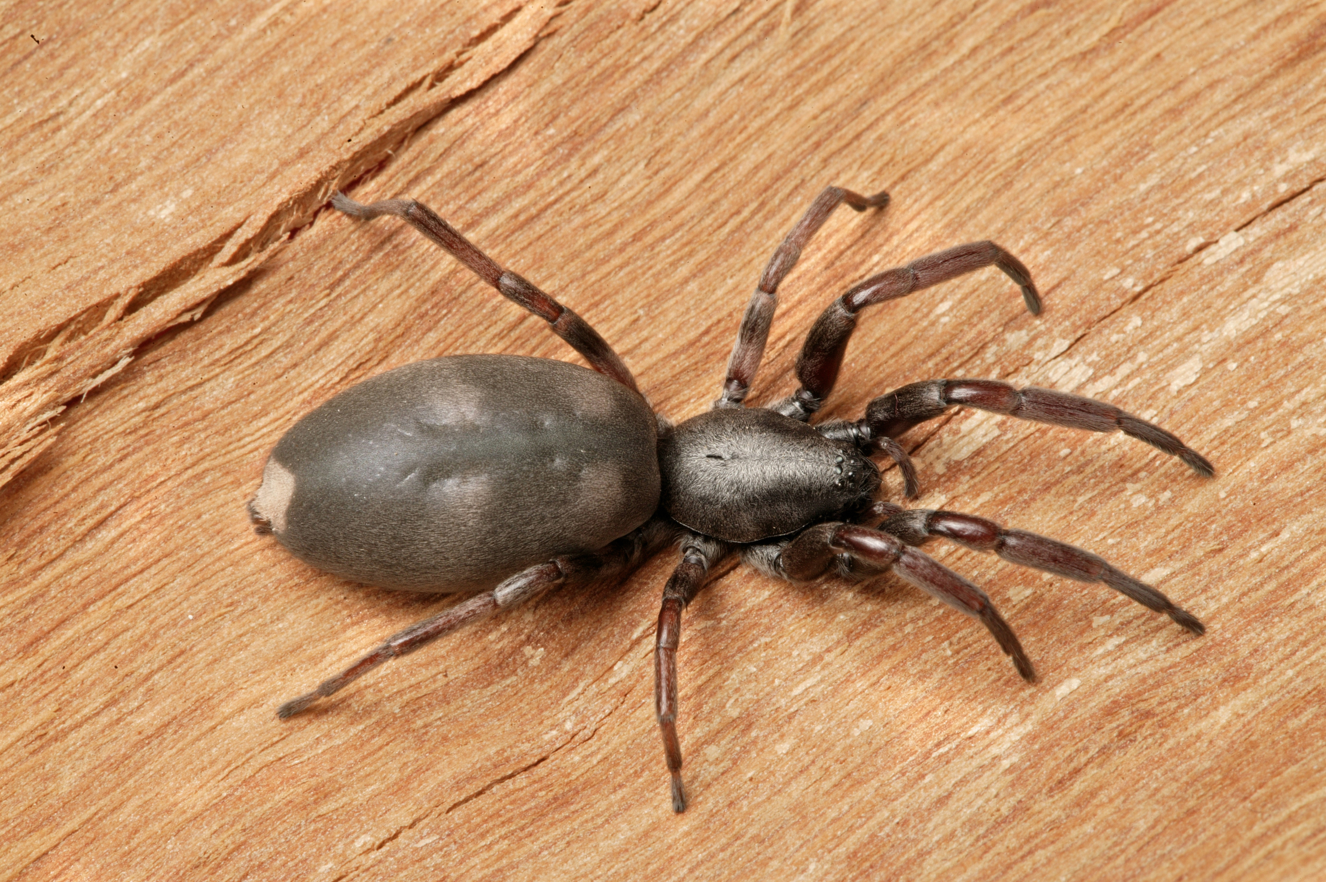 A white tailed spider. Photo credit: David McClenaghan